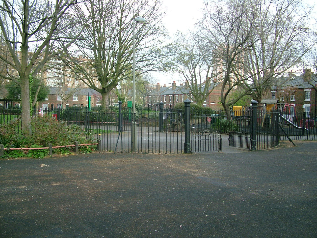 The location of the original Brown Dog statue, in Latchmere Park, Battersea.